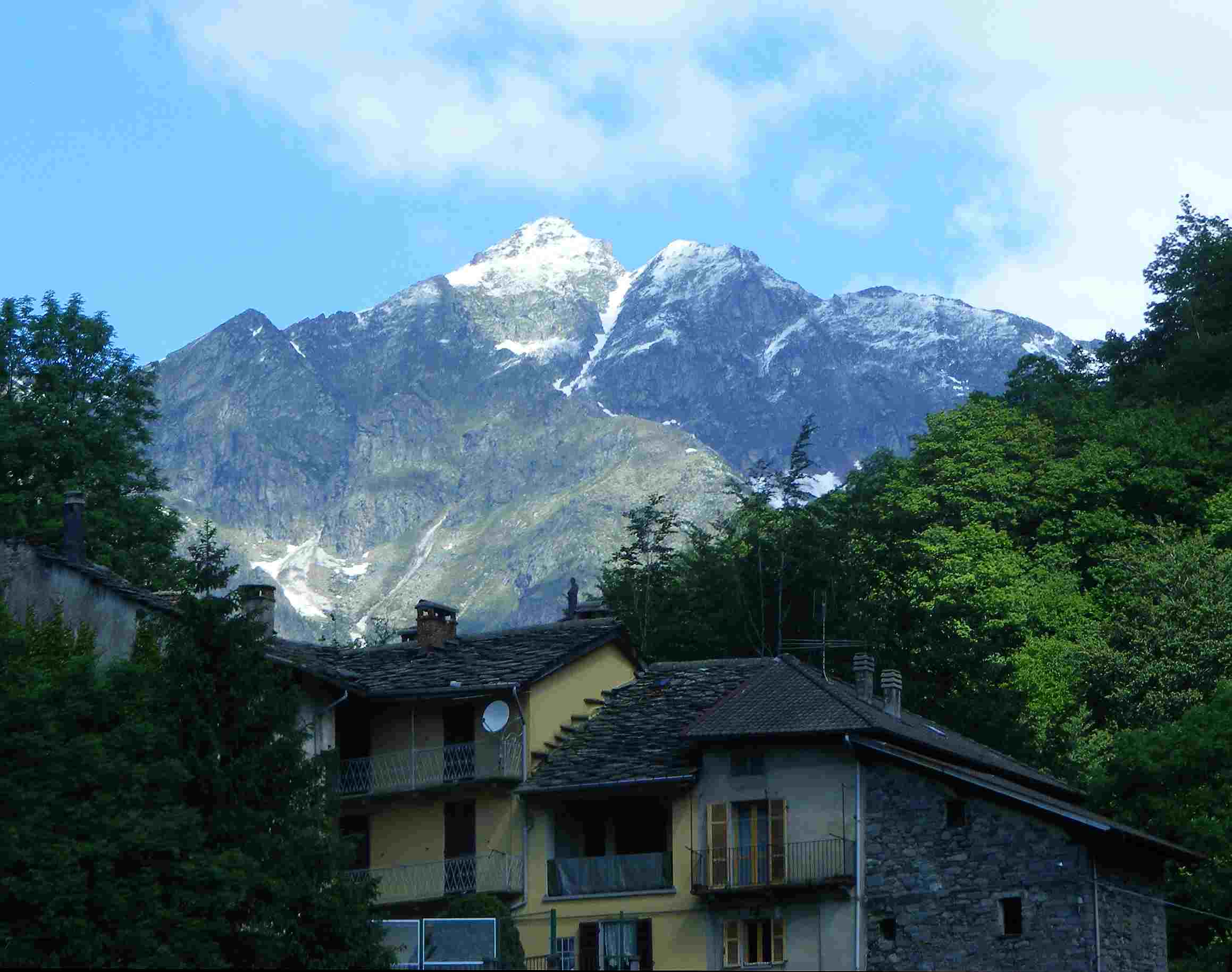 Mount Gemelli di Mologna from Valmosca (Campiglia Cervo, BI, Italy)